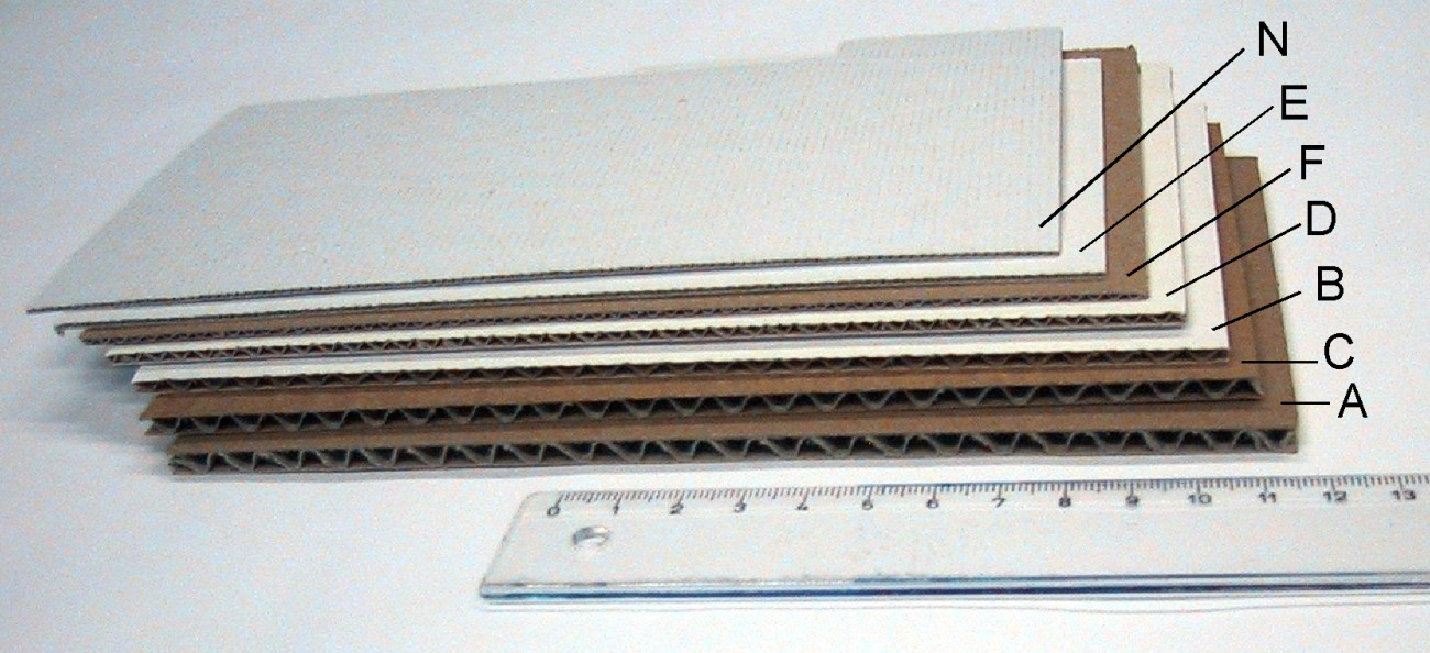 Main flutes for corrugated paper (Cardboard) ordered by size. The labels indicate the flute types. See also: Image:Cardboard All Flutes Labeled.jpg Image:Cardboard All Flutes.jpg Image:Cardboard Main Flutes Labeled.jpg Image:Cardboard Main Flutes.jpg